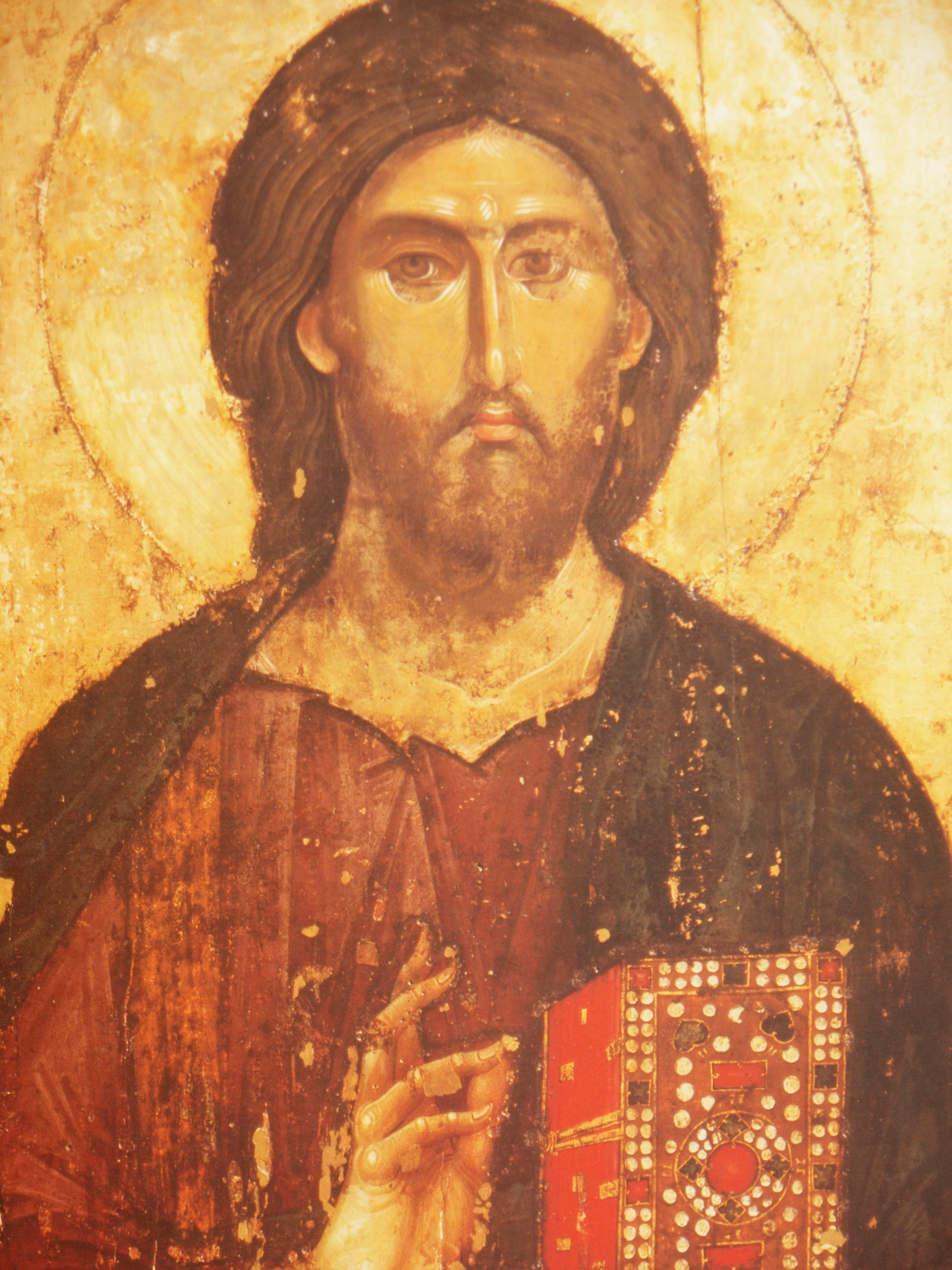 Christ pantokrator icon, third quarter 13th century, Hilandar